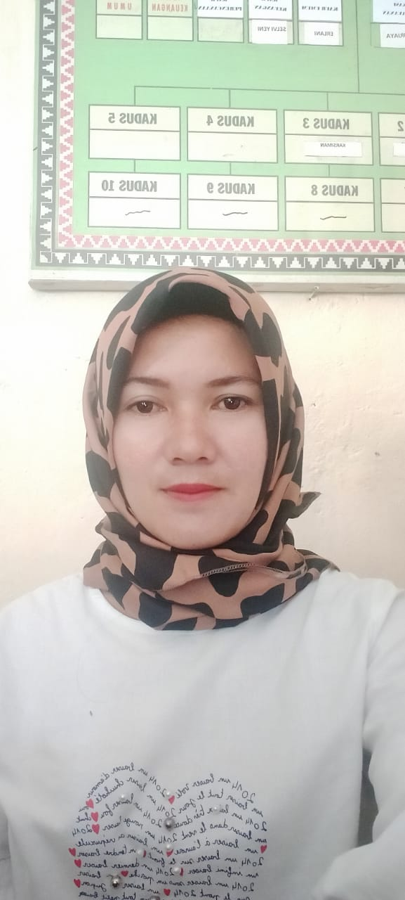 bendahara